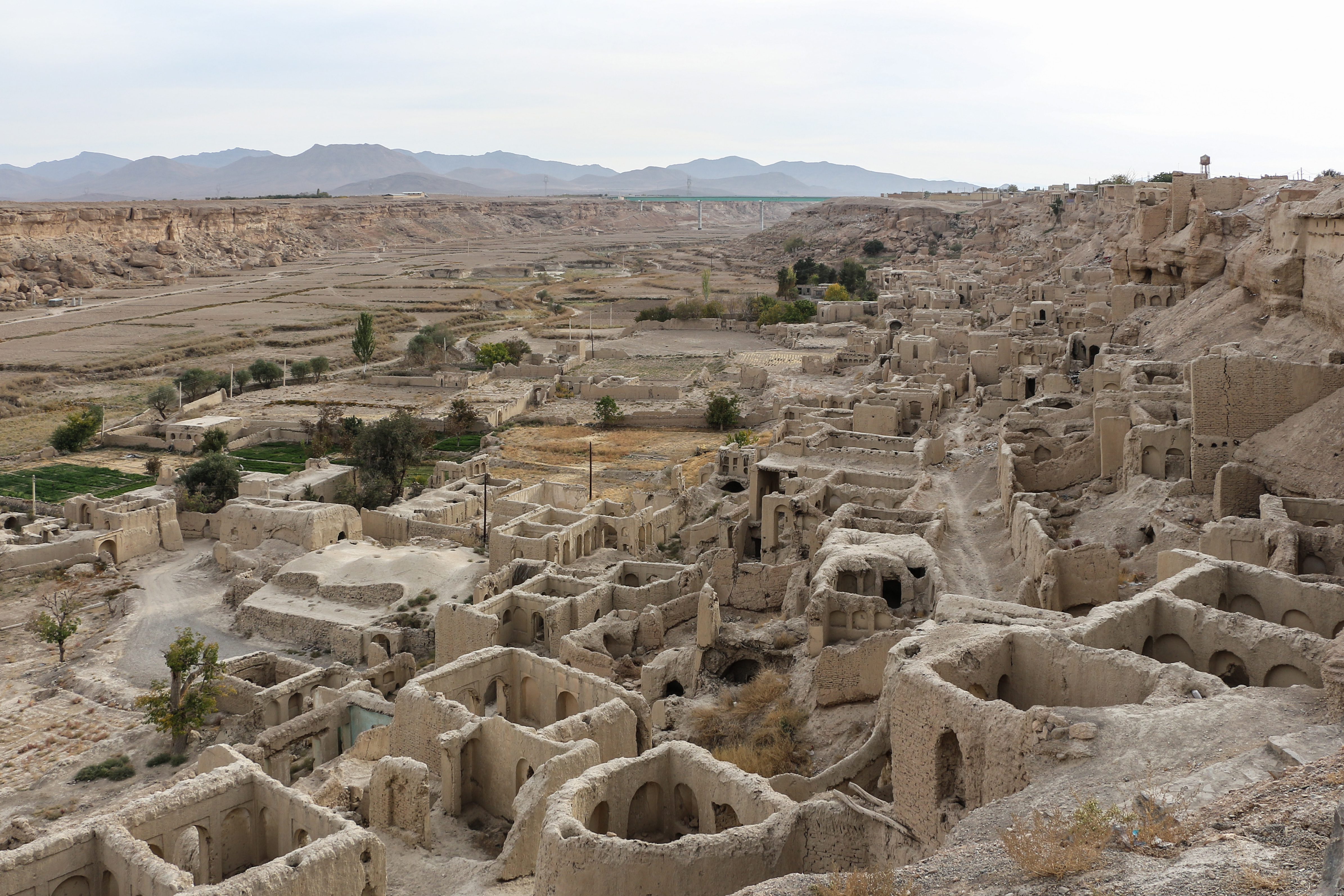 Ruins of Izadkhvast, Iran